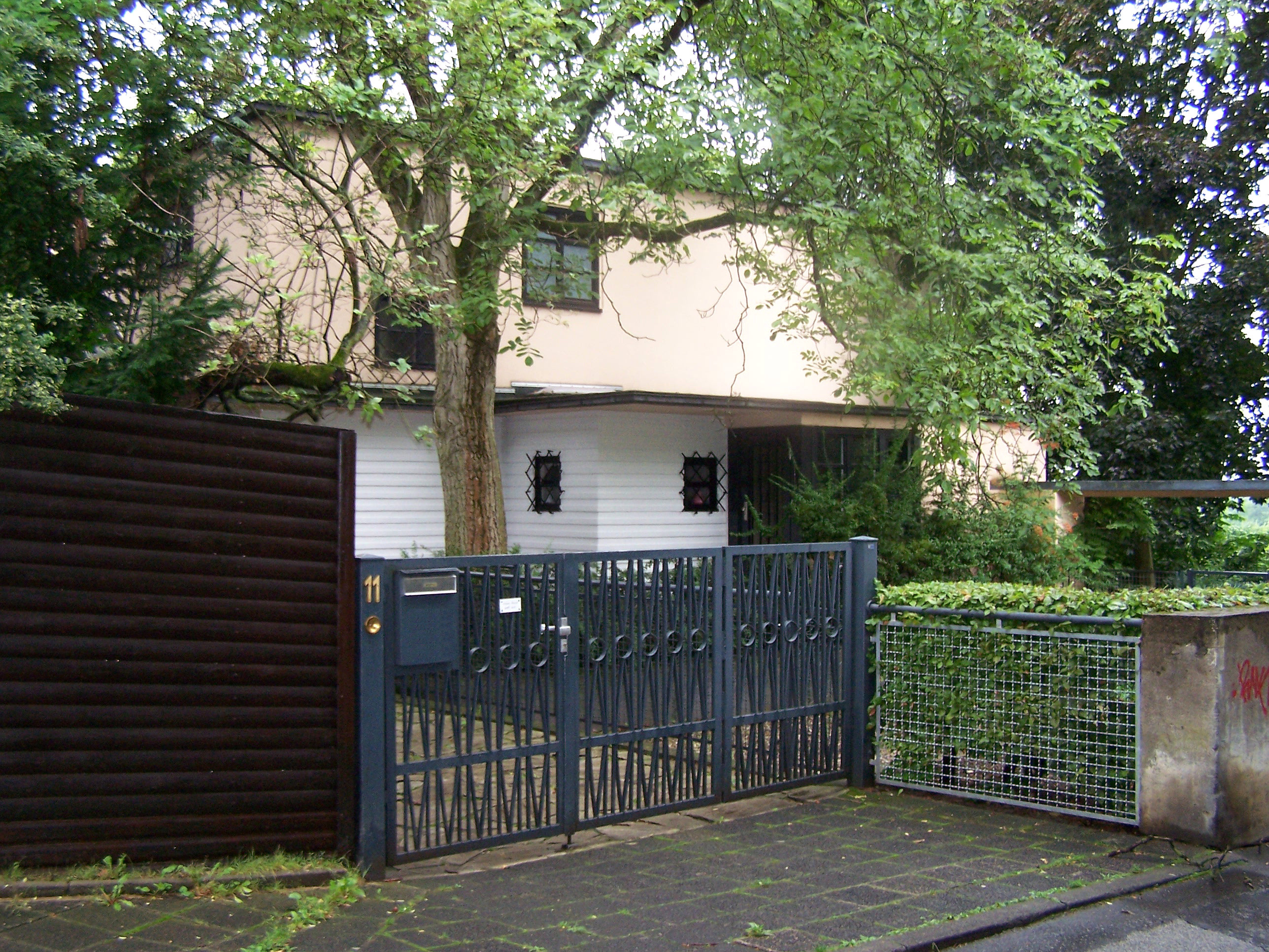 Former residential building of architect Ernst May in Frankfurt am Main-Ginnheim